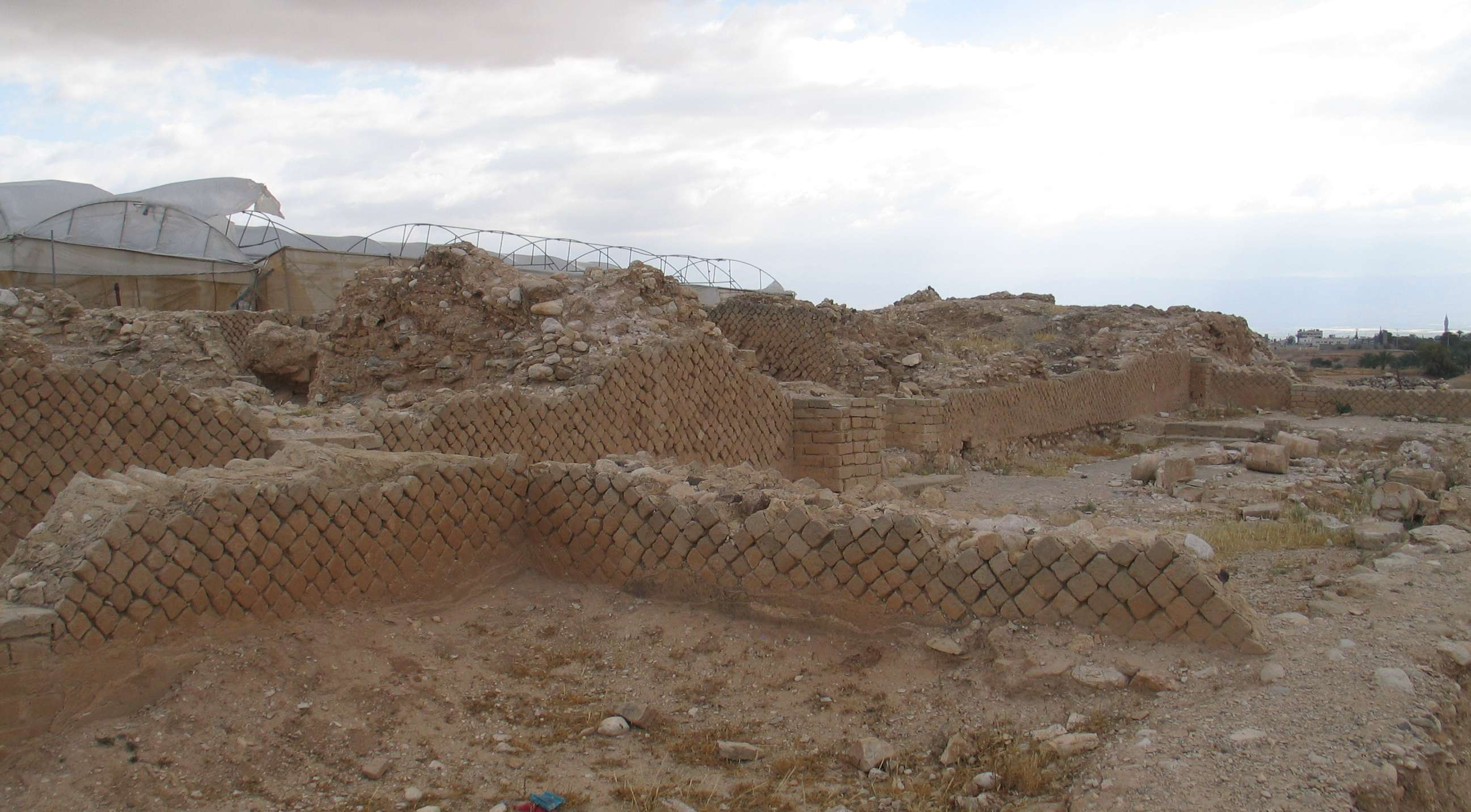 Hasmonean-Herodian palaces (Tulul Abu al-Alaiq) over Wadi Kelt, southwest of Jericho.